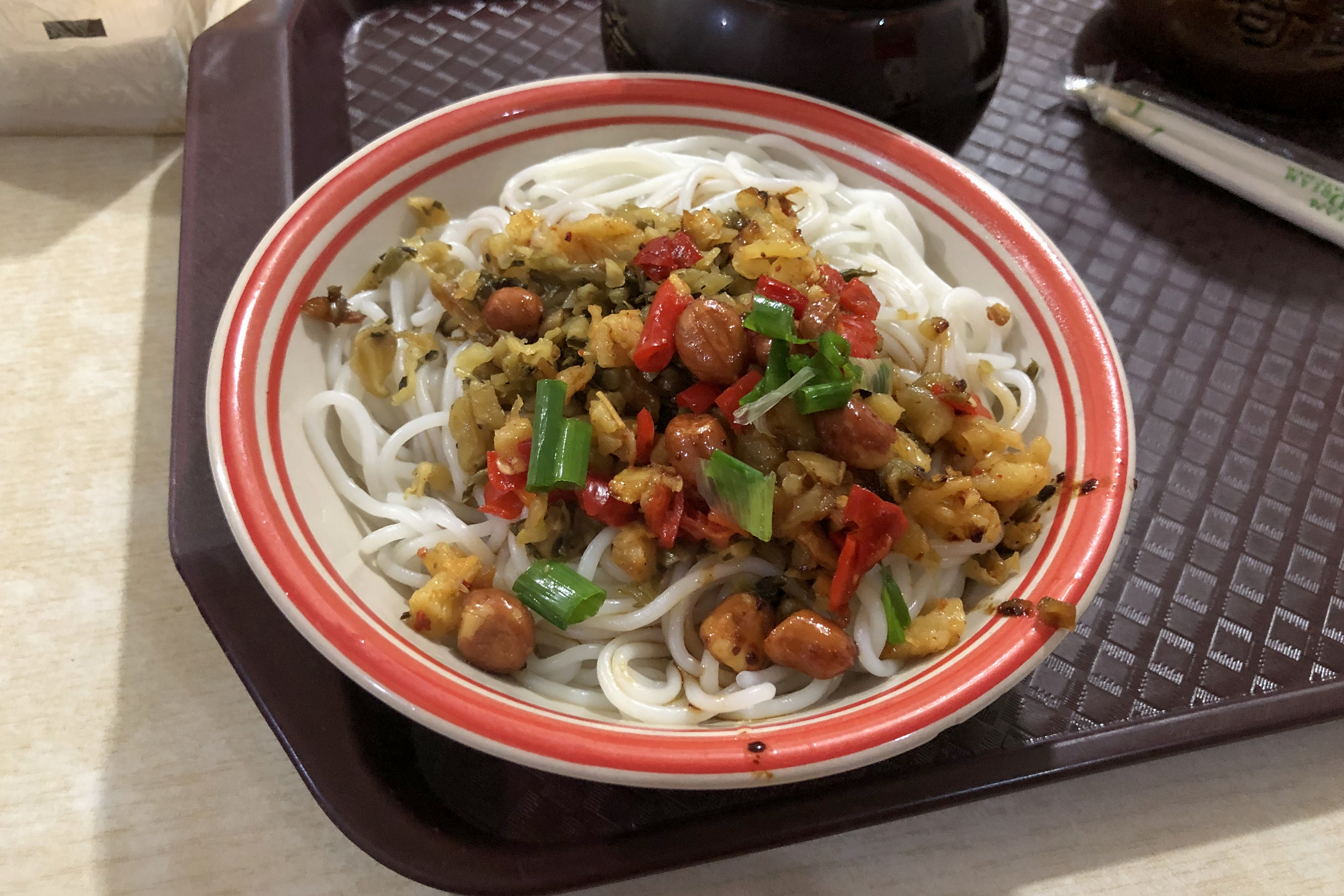 Sold for CNY 3.00 only?!